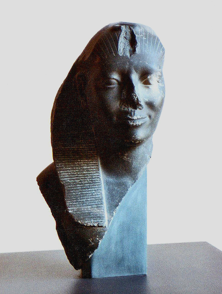 Statue of Sekhemkare Amenemhat V of Egypt's 13th dynasty in green slate from Elephantine. Upper part now in Vienna, Kunshistorisches Museum, 37, and lower part in Aswan, Aswan Museum, 1318 globalegyptianmuseum